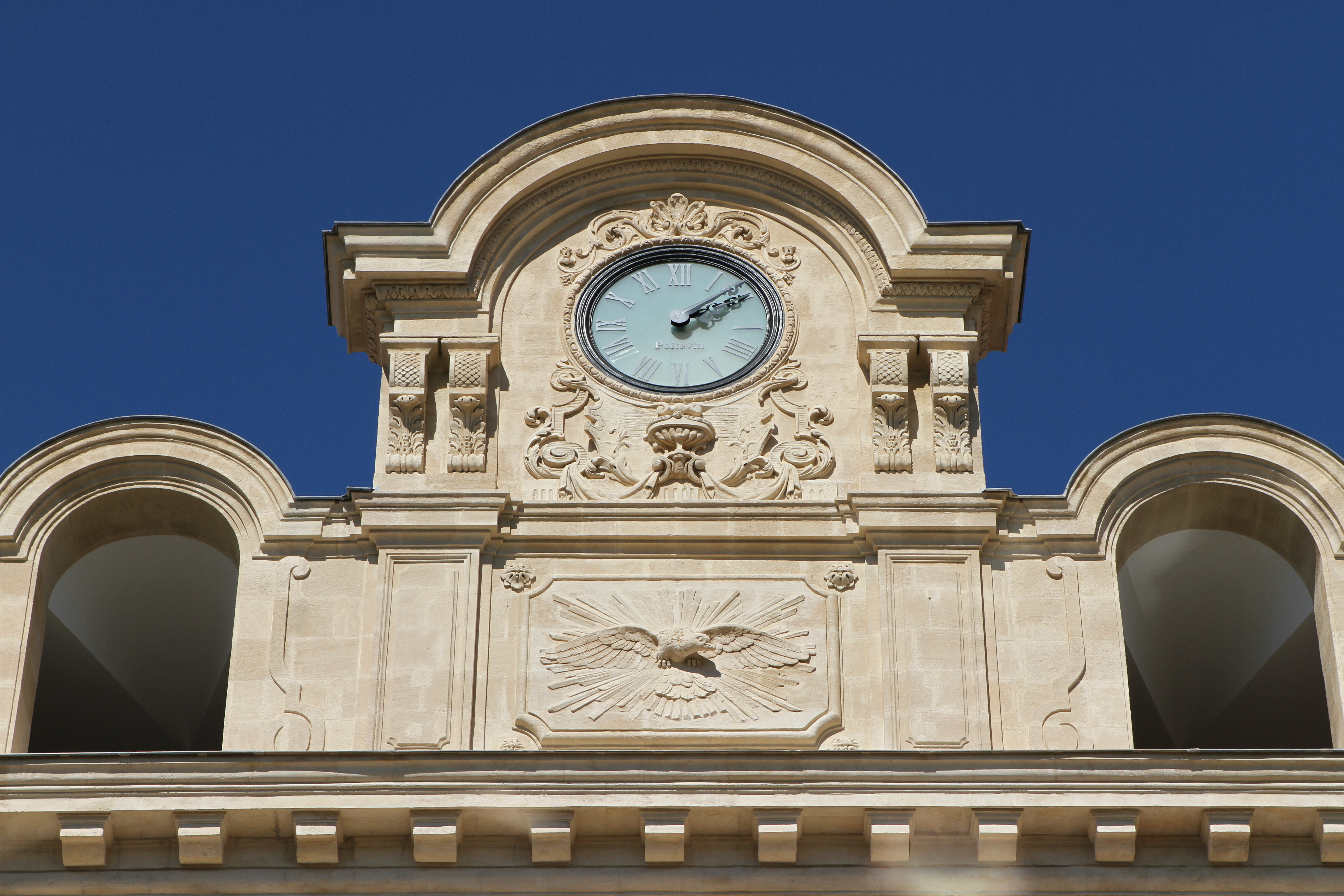 The InterContinental hotel in Marseille (Bouches-du-Rhône, France)